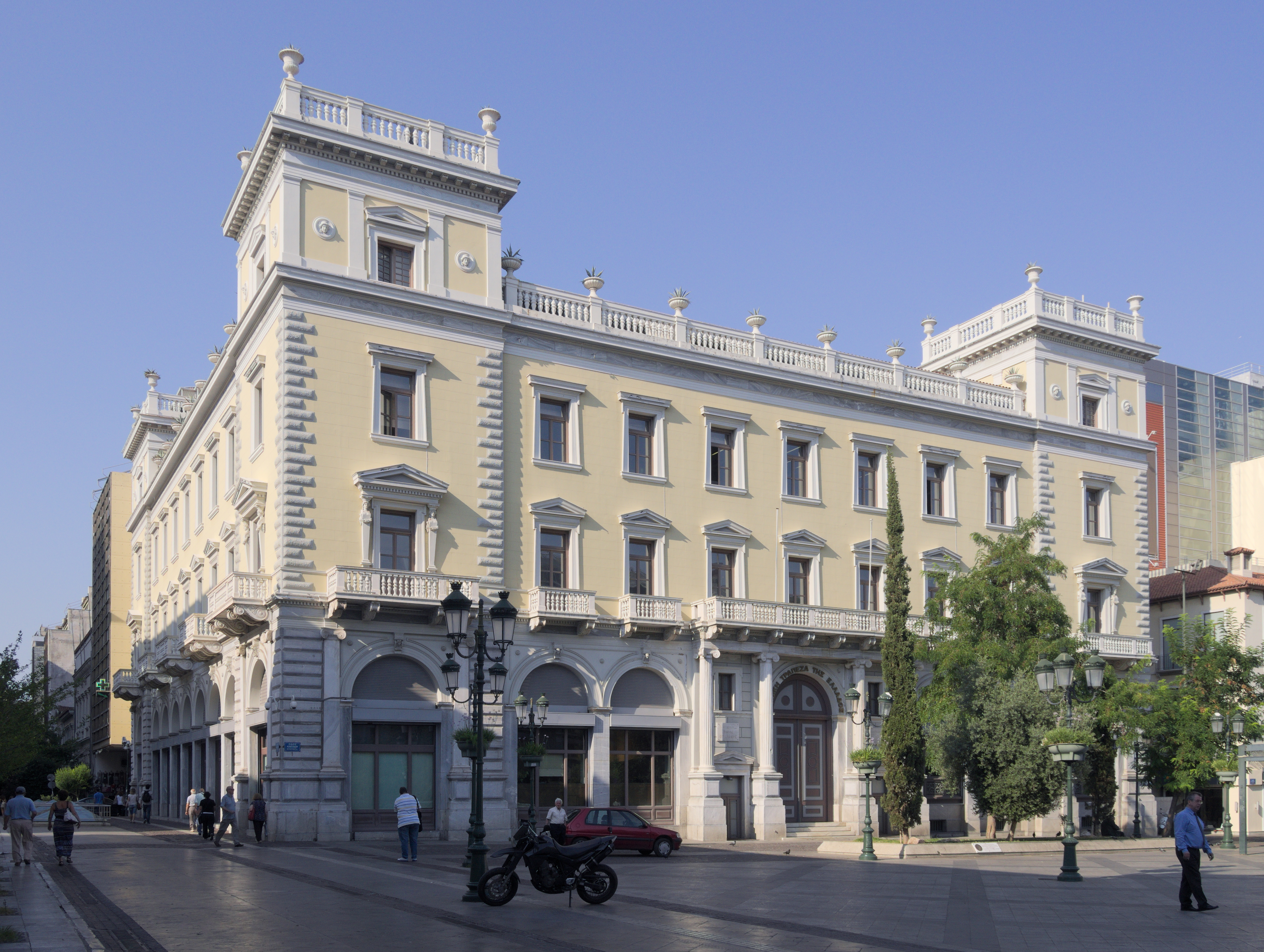 Melas Megaron, designed by Ernst Ziller and built in 1874, at Kotzia square, Athens. View from NE.